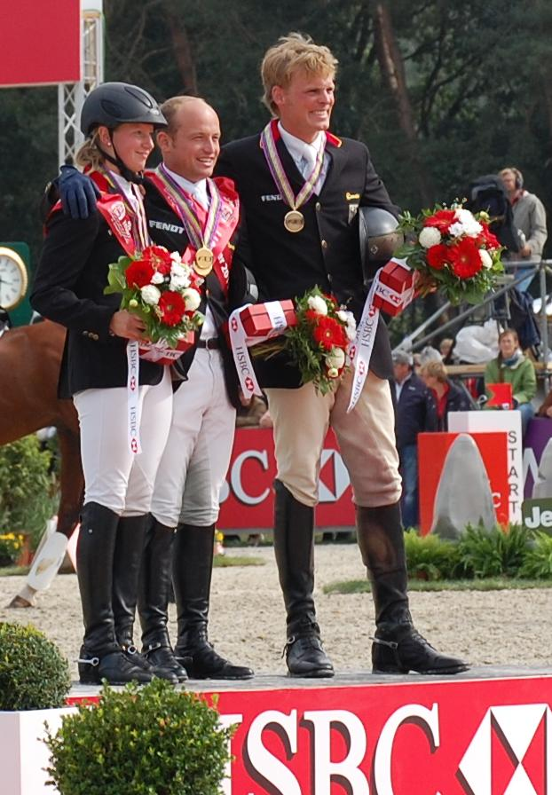 2011 European Eventing Championship medal ceremonies - individual: Sandra Auffarth, Michael Jung and Frank Ostholt (all Germany, from left to right)